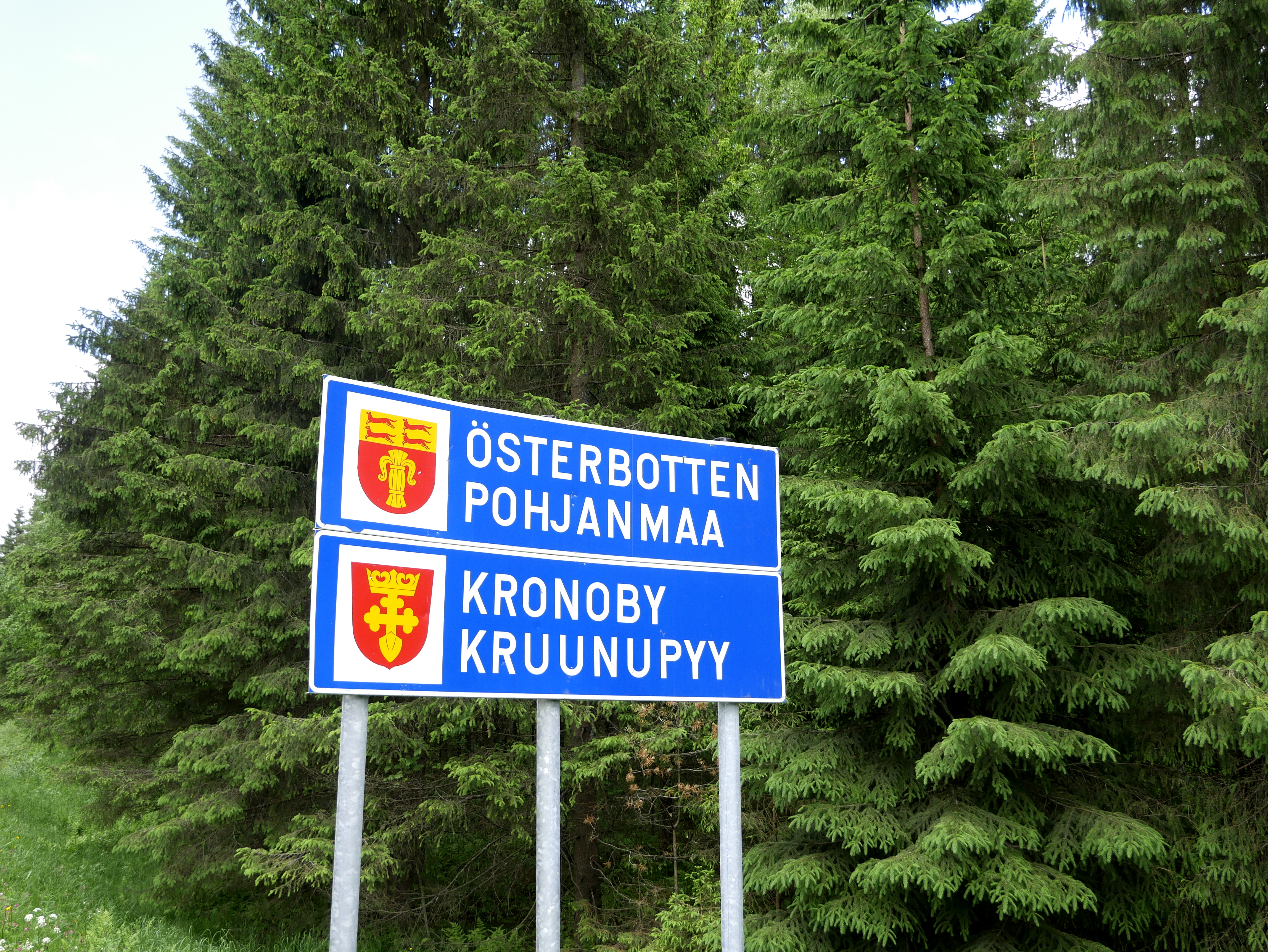 Ostrobothnia and Kronoby border sign.